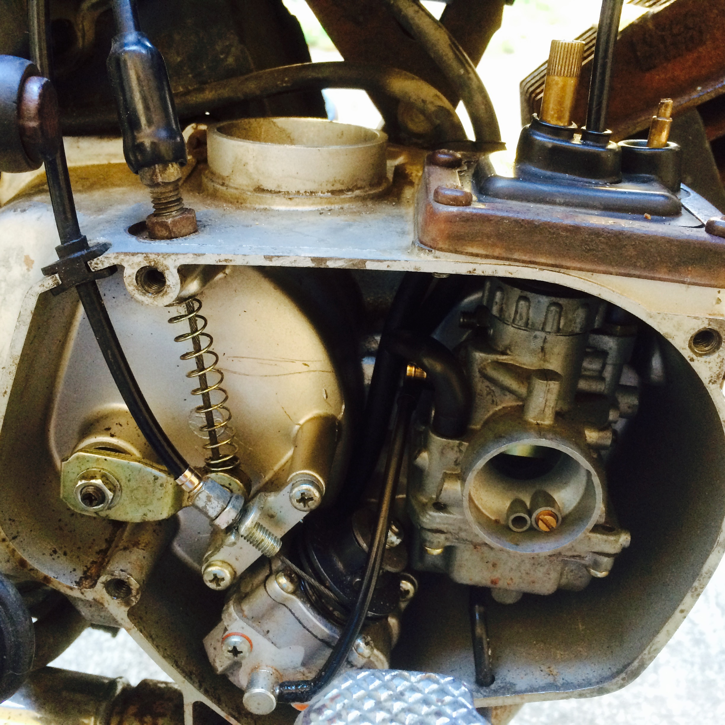 2 Strok oil pump on a Yamaha DX100 - just behind the Carburettor. Primary part of 2 stroke Automatic Lubrication System.